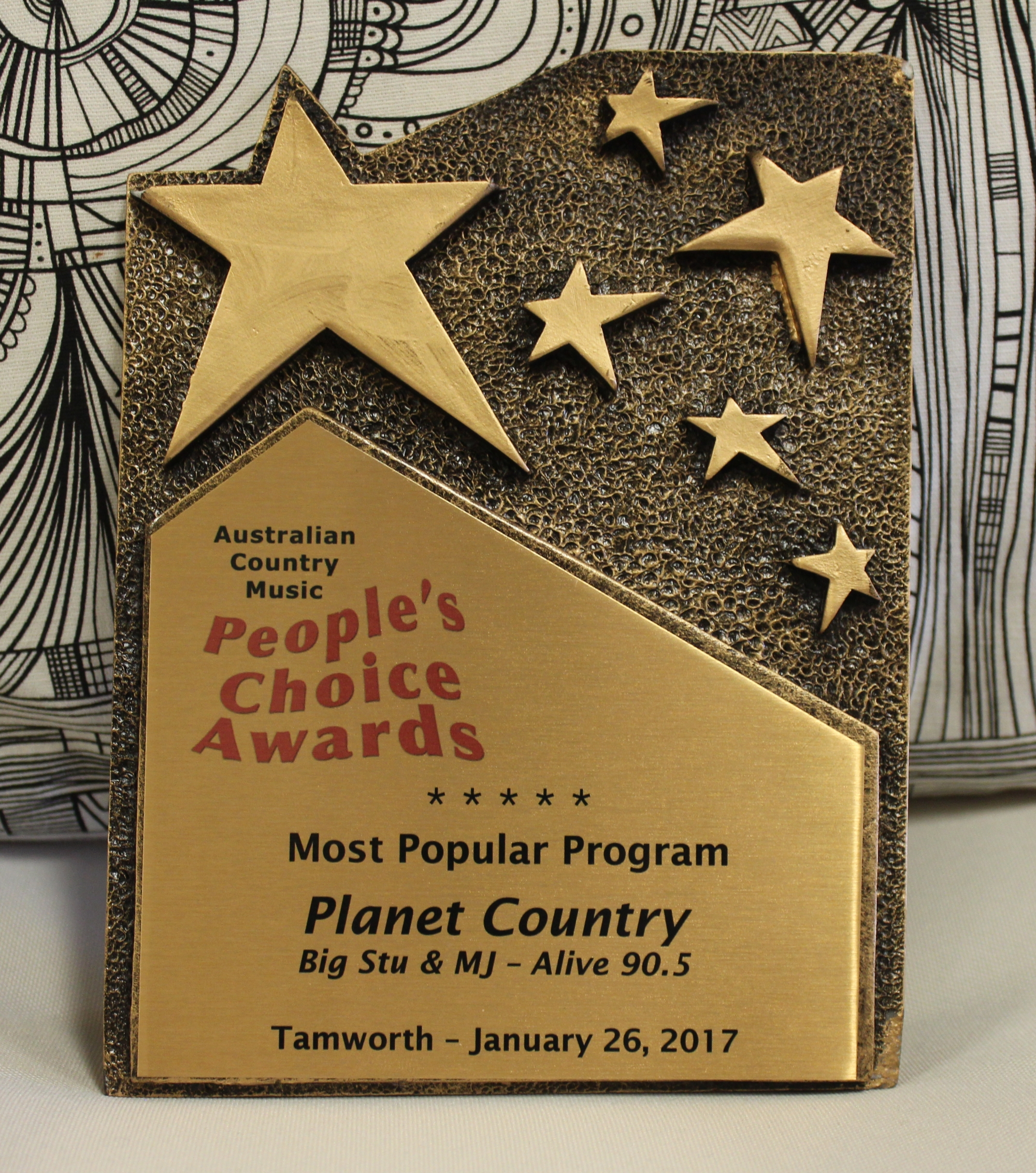 The 2017 Peoples Choice Award Trophy awarded to Planet Country for Most Popular Program or Station. Photo taken by co-host MJ the day after the awards ceremony.